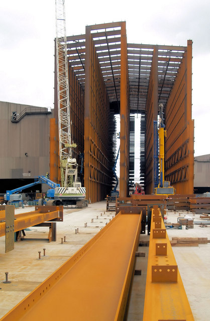 Corus automated mill in construction. Fully automated mill storage building.